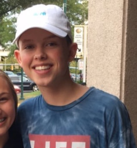 Jacob Sartorious meeting fans, 2017